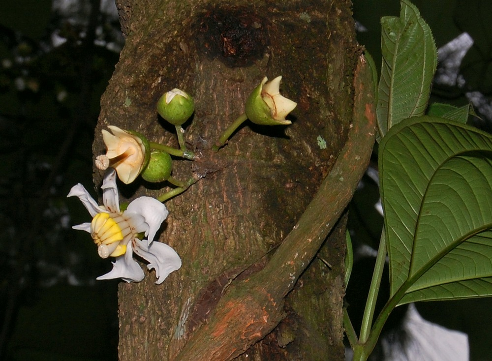 Bellucia axinanthera cauliflorous inflorescence. Bogor, West Java, Indonesia